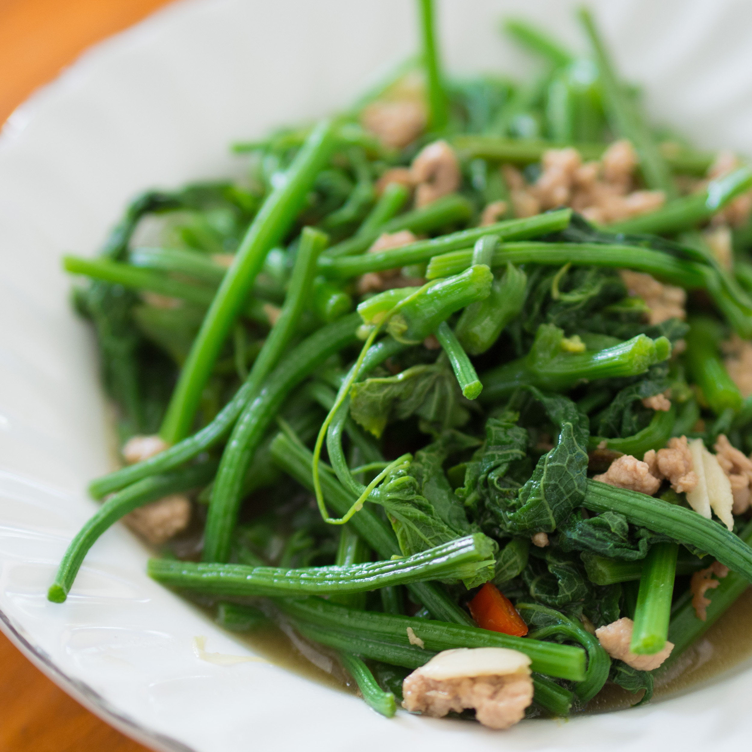 Phat sayongte (Thai script: ผัดซายองเต้) is best translated as "stir-fried mountain melon greens". Another name used for this plant in Thailand is fak maeo (Thai script: ฟักแม้ว). In Thailand the young vines and leaves, yot sayongte (Thai script: ยอดซายองเต้) or yot fak maeo (Thai script: ยอดฟักแม้ว), are eaten stir-fried or as a vegetable in certain soups. These greens have a very sweet taste and combine extremely well with oyster sauce. The plant, known in the West as Chayote and originally from Central America, in Thailand grows mainly in the mountains up north.